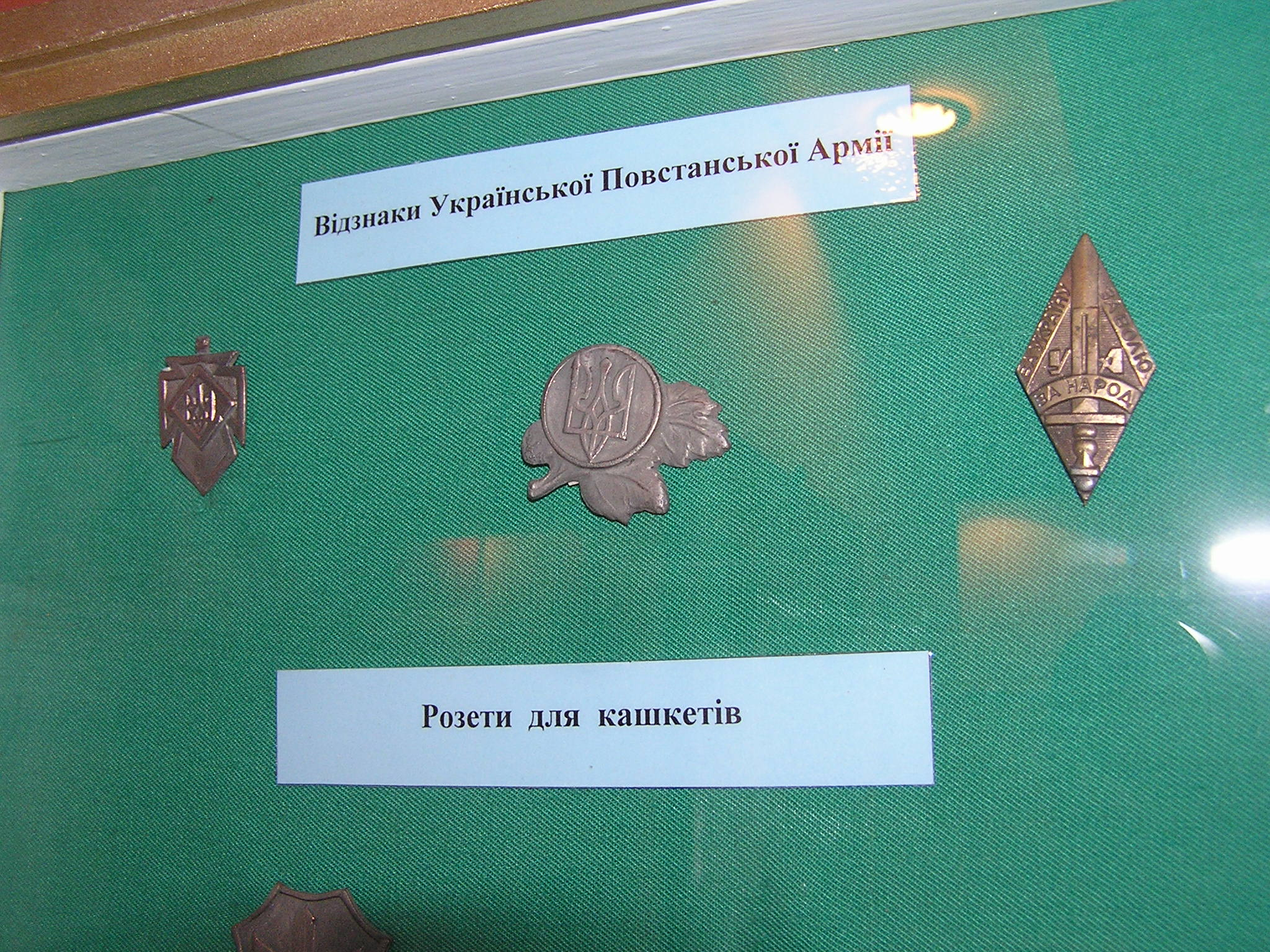 History museum of Truskavets History Museum of Truskavets Native nameМузей истории г. ТрускавецLocationTruskavetsCoordinates49° 16′ 39.5″ N, 23° 30′ 23.96″ E Established29 December 1982 Authority control : Q12130489 institution QS:P195,Q12130489